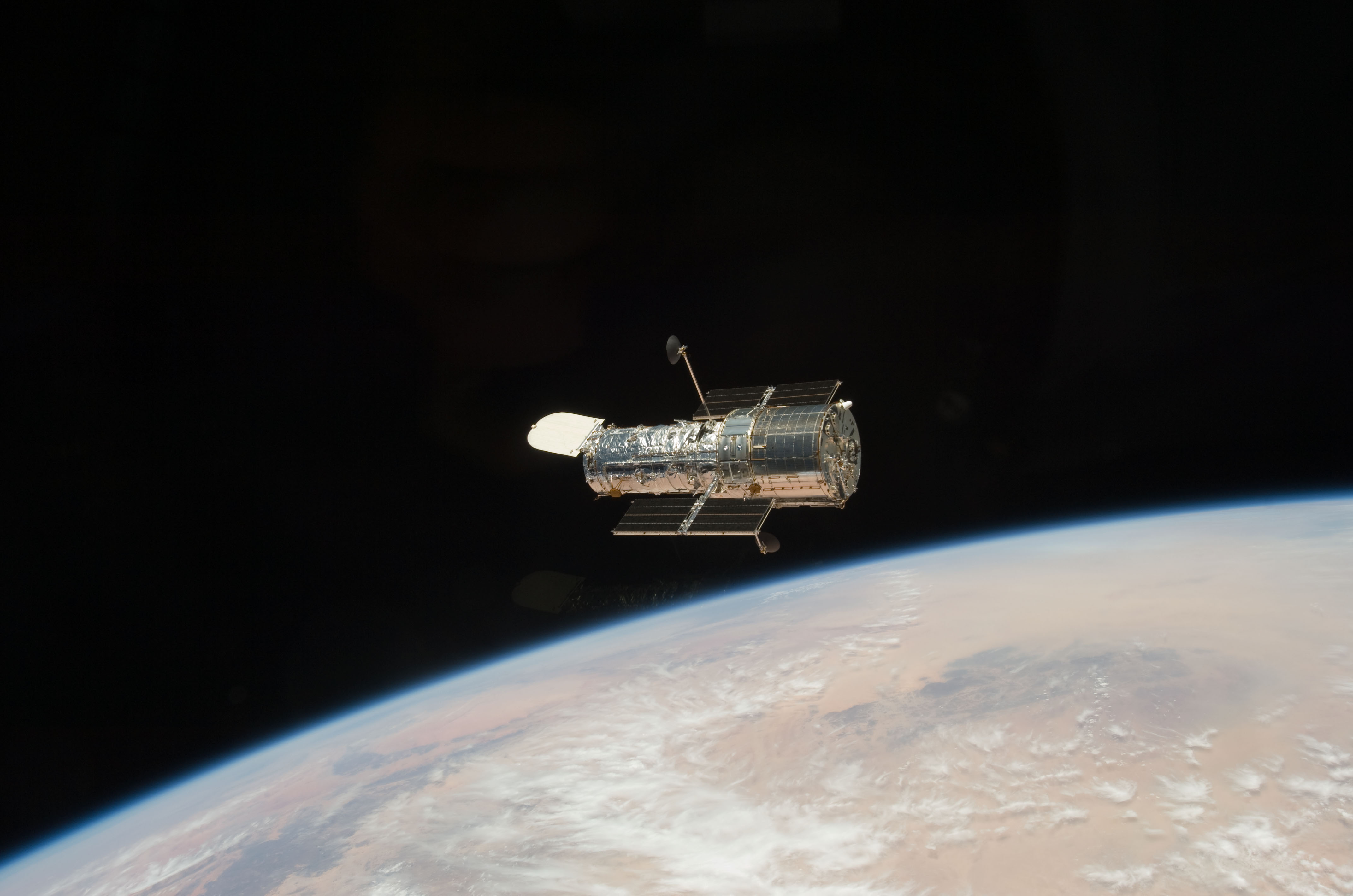 An STS-125 crew member aboard the Space Shuttle Atlantis captured this still image of the Hubble Space Telescope as the two spacecraft continue their relative separation on May 19, after having been linked together for the better part of a week.